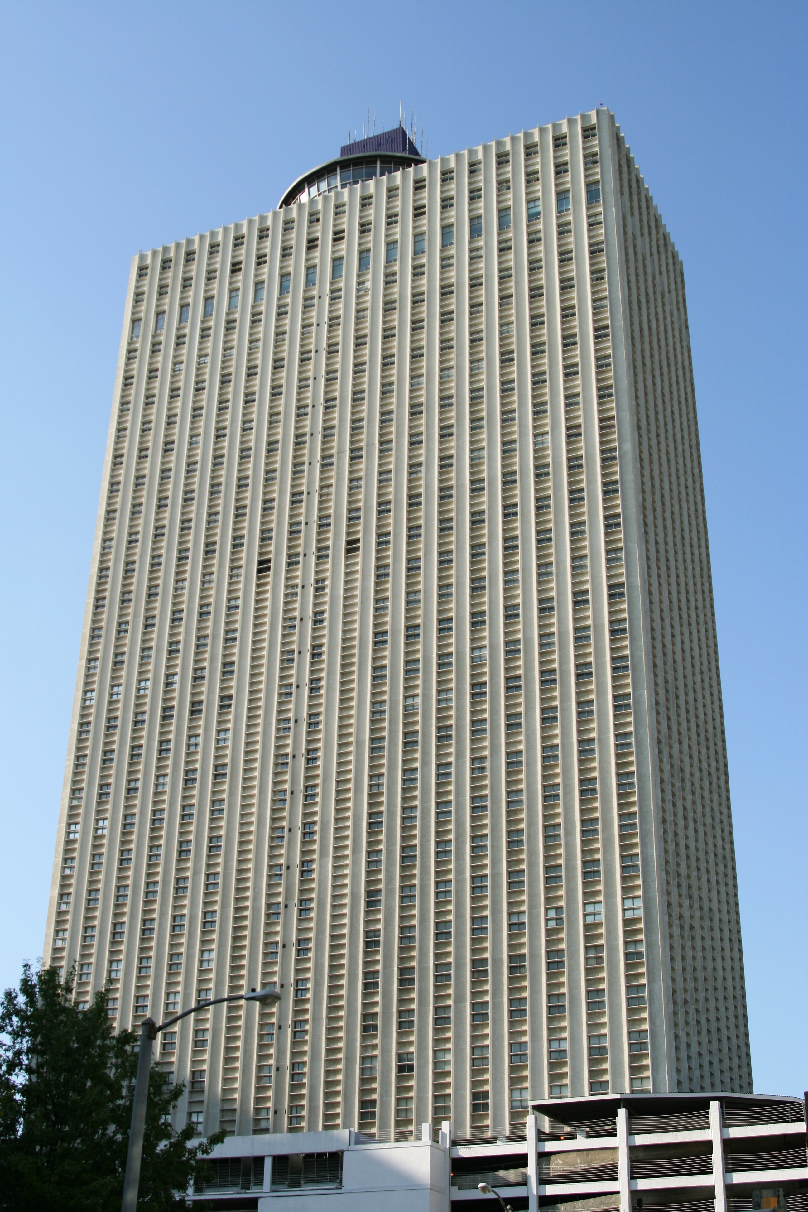 100 North Main, a skyscraper in Memphis, Tennessee.